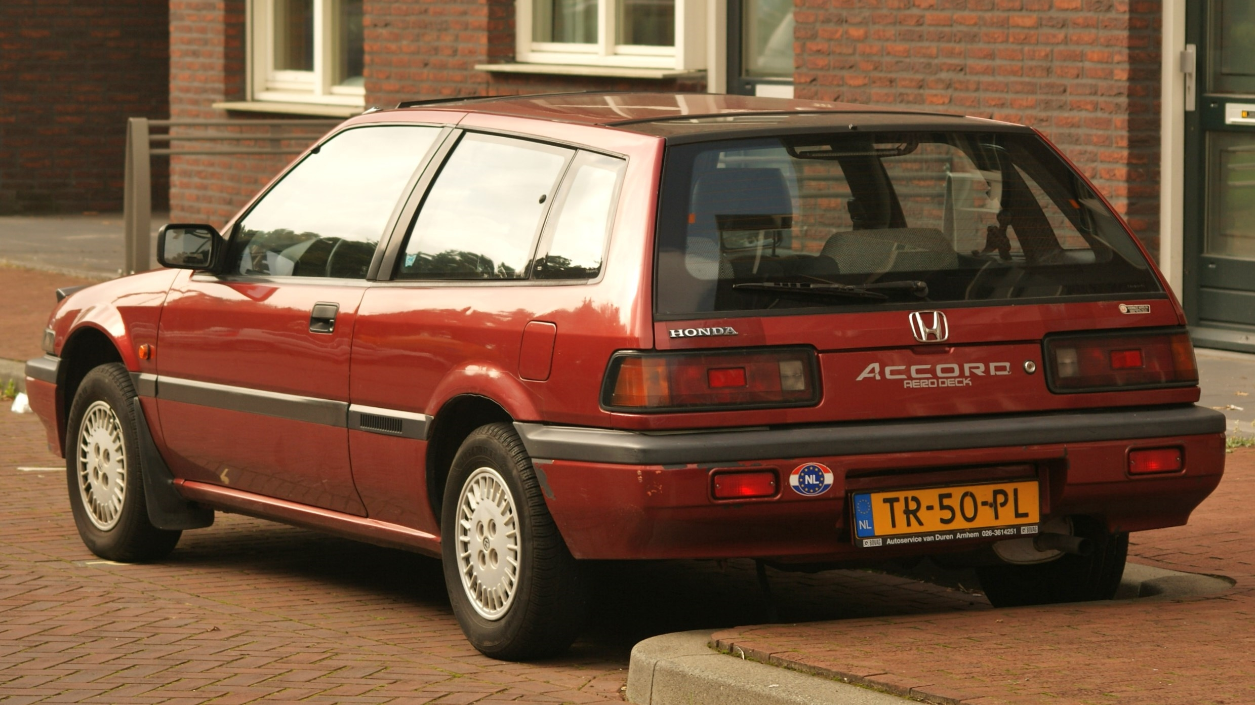 TR-50-PL From one owner since 1994.